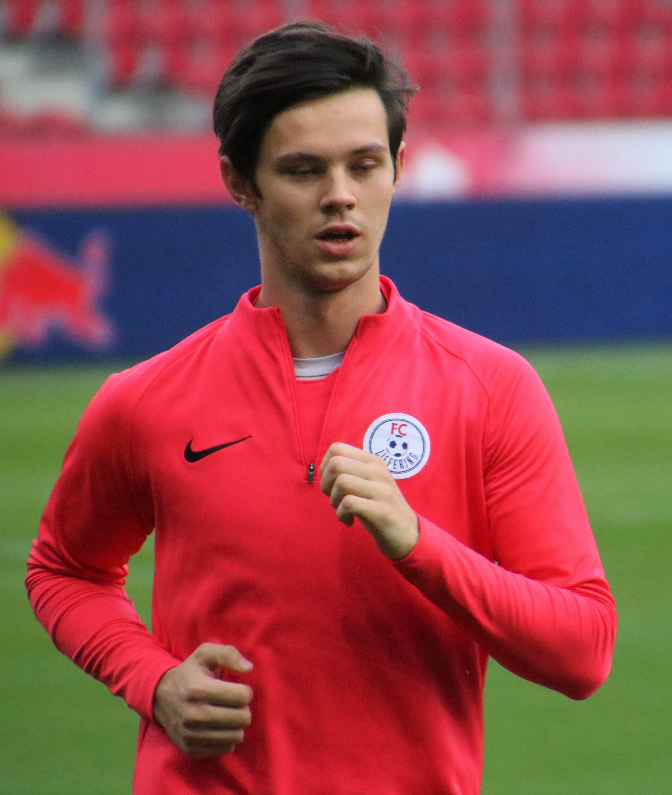 Austria 2nd league league match